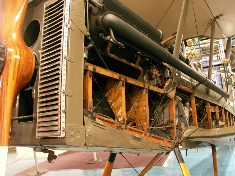 Wood frame construction of the SE5, South African National Museum of Military History